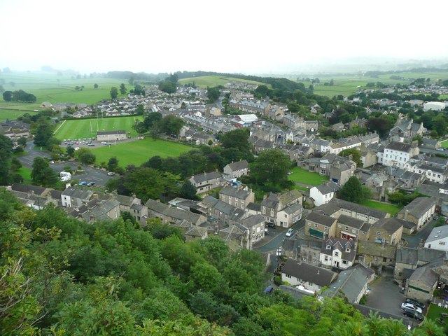 View of the southern part of Settle, North Yorkshire, England from Castlebergh. Rugby grounds on the left, and to the right an interesting-looking building with a large curved roof, perhaps a garage. No photograph of it yet on the site, nor of the Police Station, which has two large bow windows at the back, facing onto a lawn.